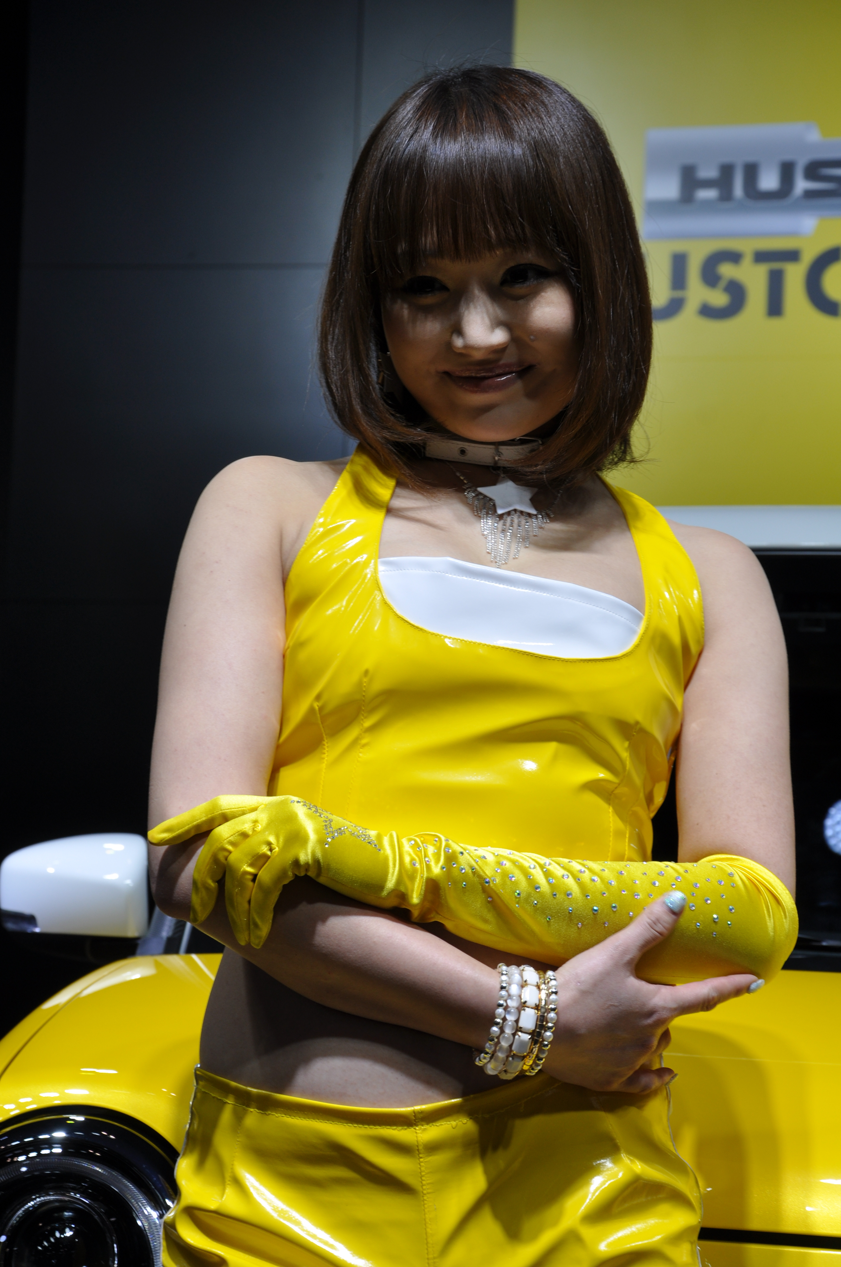 TOKYO AUTO SALON 2014 with NAPAC_055